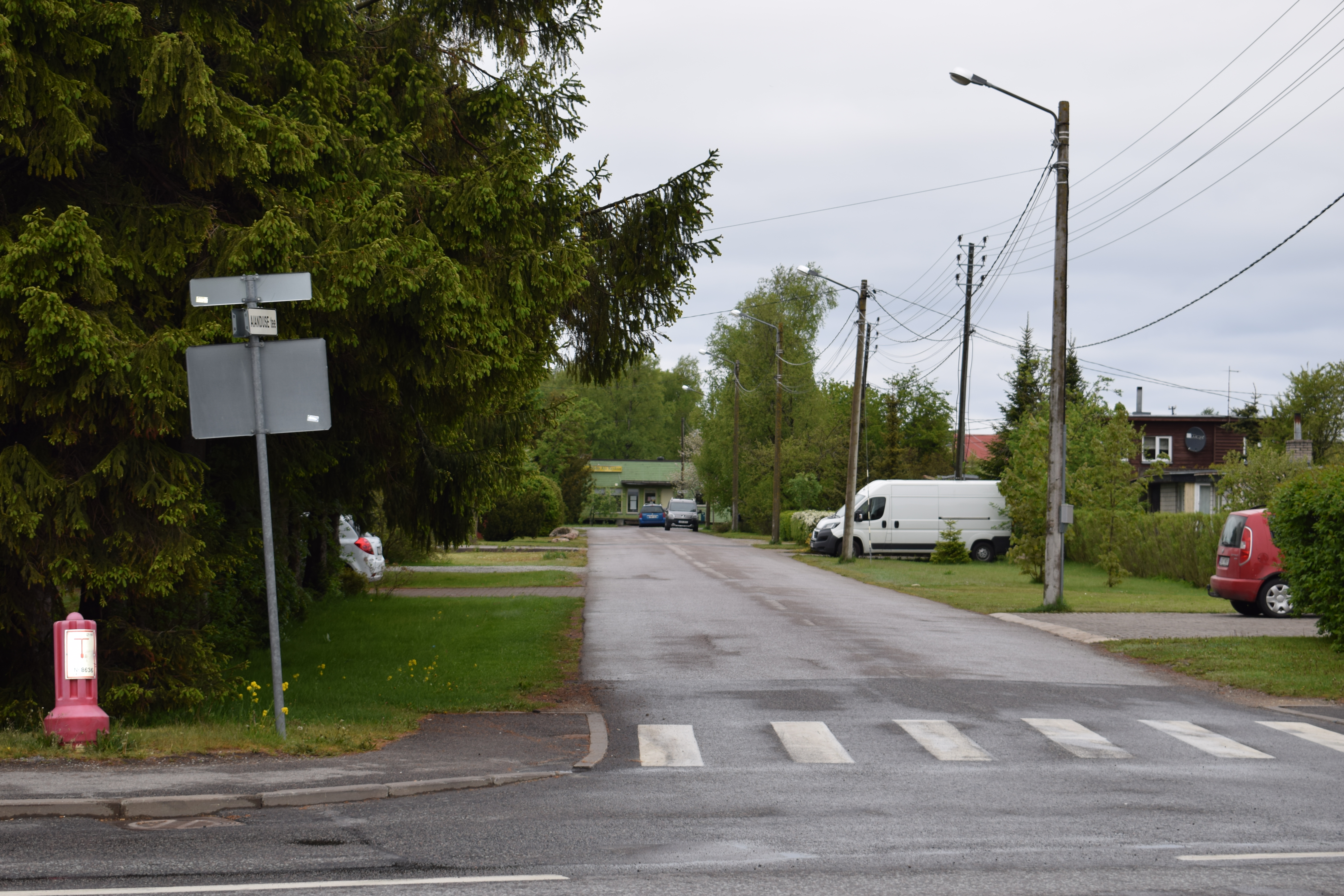 Aianduse road